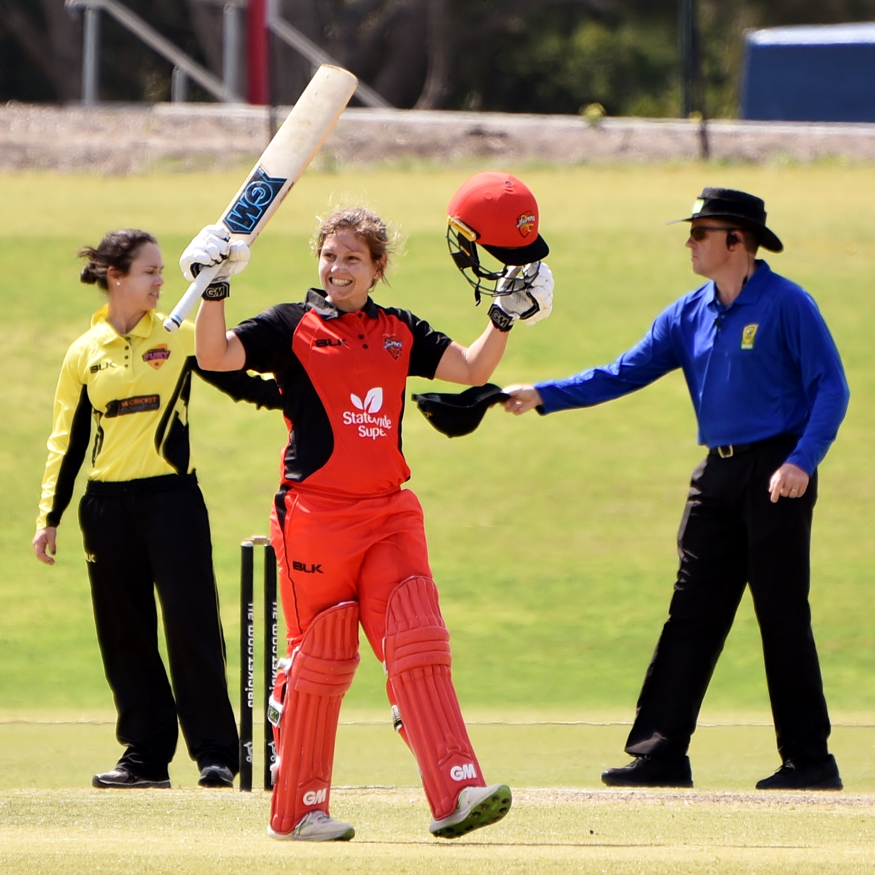 Bridget Patterson celebrates reaching her century on her way to 109 for the South Australian Scorpions during a WNCL clash against the Western Fury at Murdoch University Sports Oval in Perth